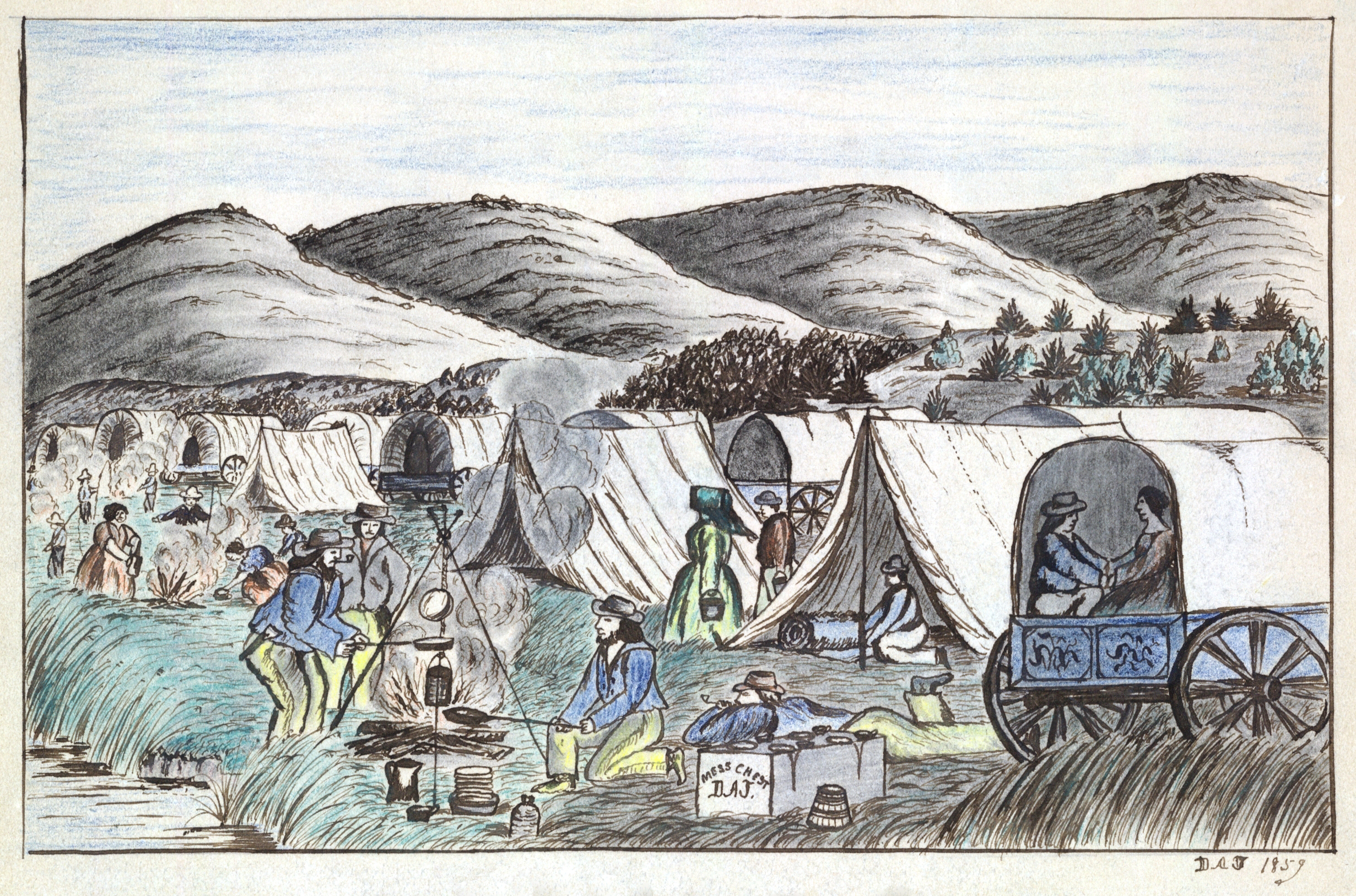 "Drawing shows several tents and covered wagons encamped on the banks of the Humboldt River in western Nevada. Both women and men prepare food over open fires, haul water, and prepare bedding. In the foreground, inside a covered wagon, a couple courts. Jenks and his party reached here on Friday, July 22, 1859.", "1 drawing on paper : graphite, ink, crayon and watercolor ; 18.2 x 25.4 cm. (sheet)."